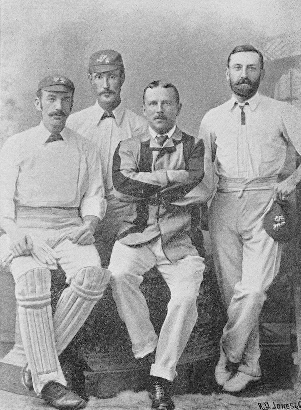 Scan of a group of Lancashire cricketers. From l-r Dick Pilling, Alexander Watson, A N Hornby, Dick Barlow